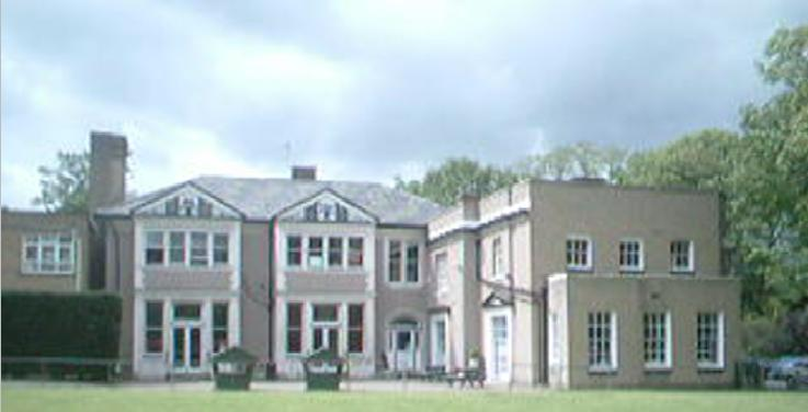 Challoner Main School Building